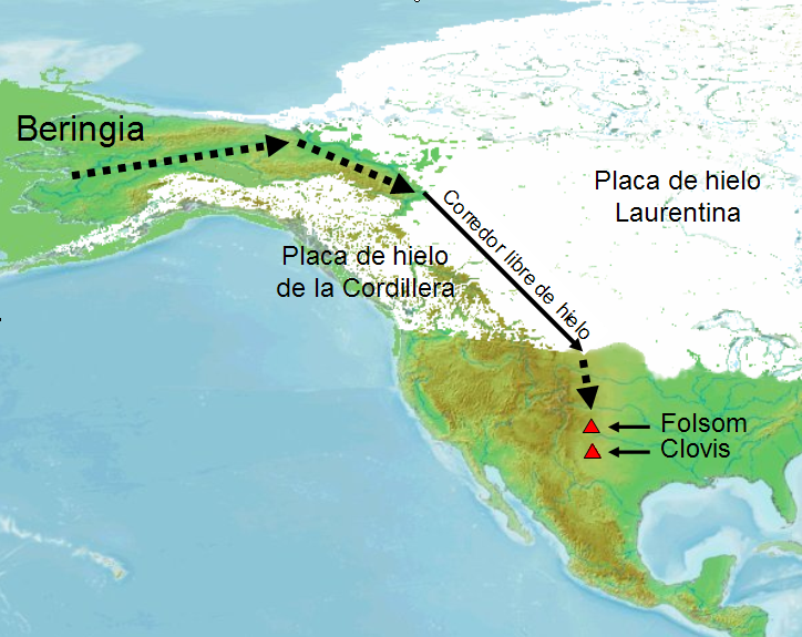 Migratory route of first humans to reach America, through an ice free corridor (Clovis theory). English version